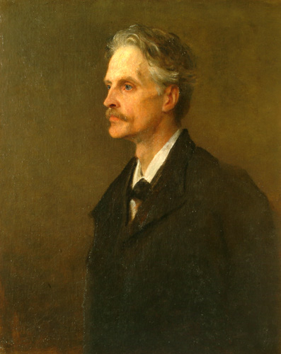 Gerald Balfour, 2nd Earl of Balfour (1853-1945)